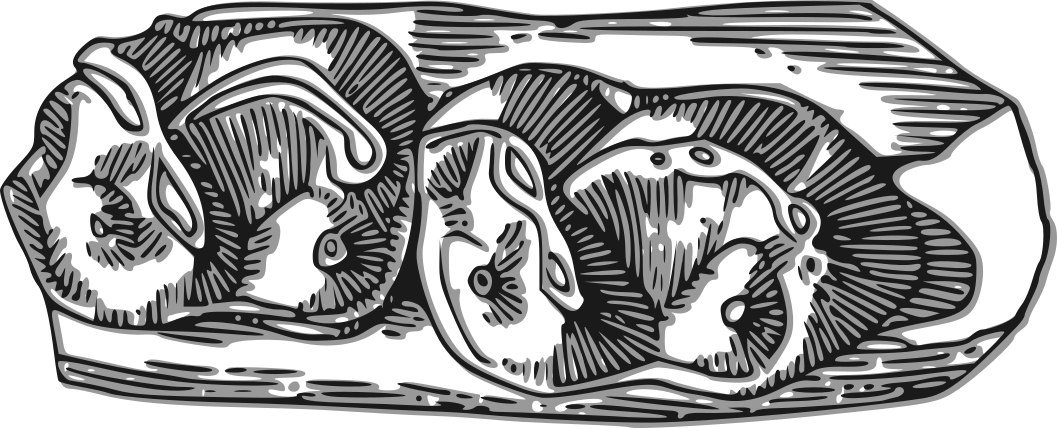 ?Isotemnus ctalego A.M.N.H. No. 28568, type, fragment of right lower jaw with M2, crown view. Modified from Simpson (1967) The Beginning of the Age of Mammals in South America 2